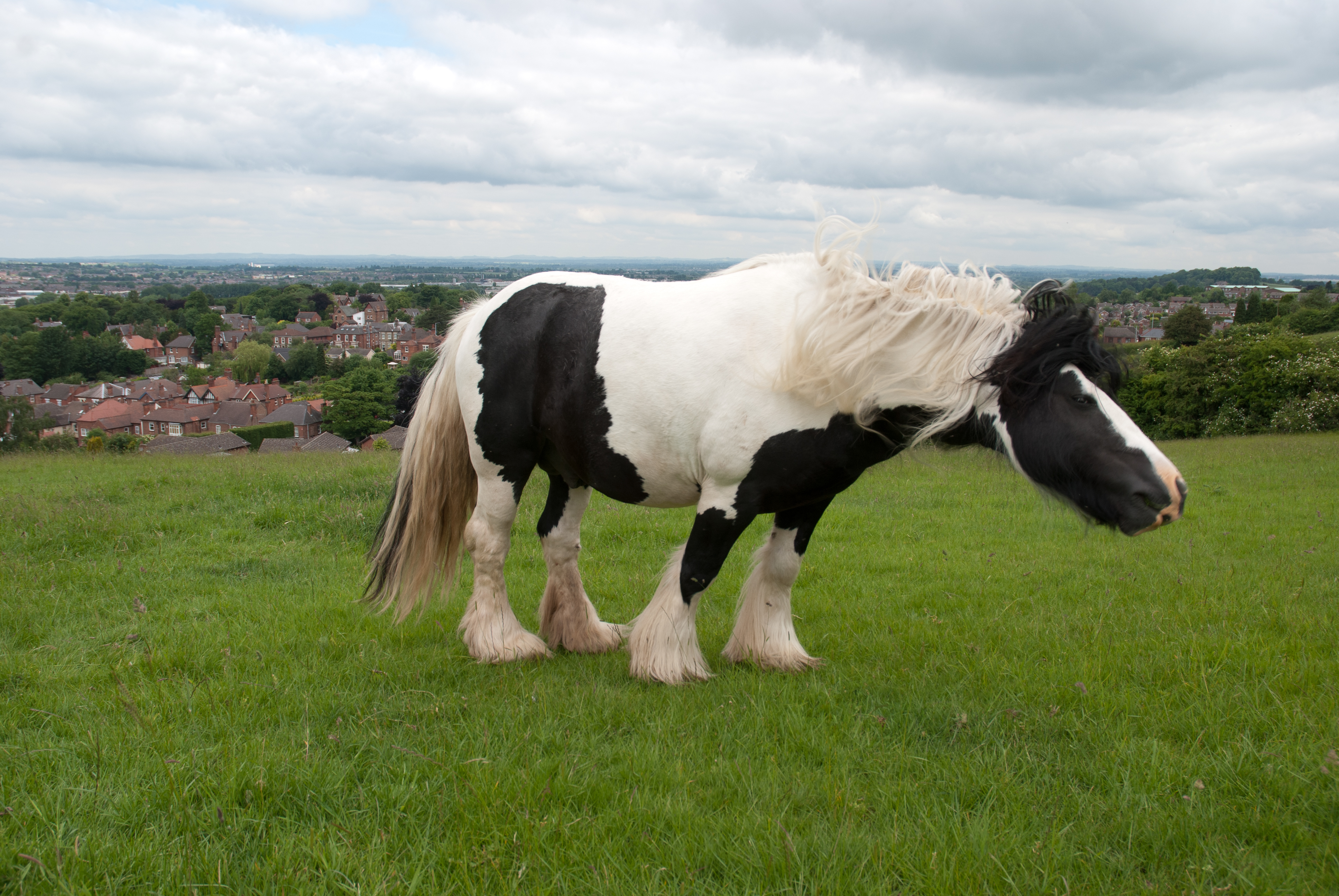 Gypsy Vanner at Burton-on-Trent in the English Midlands